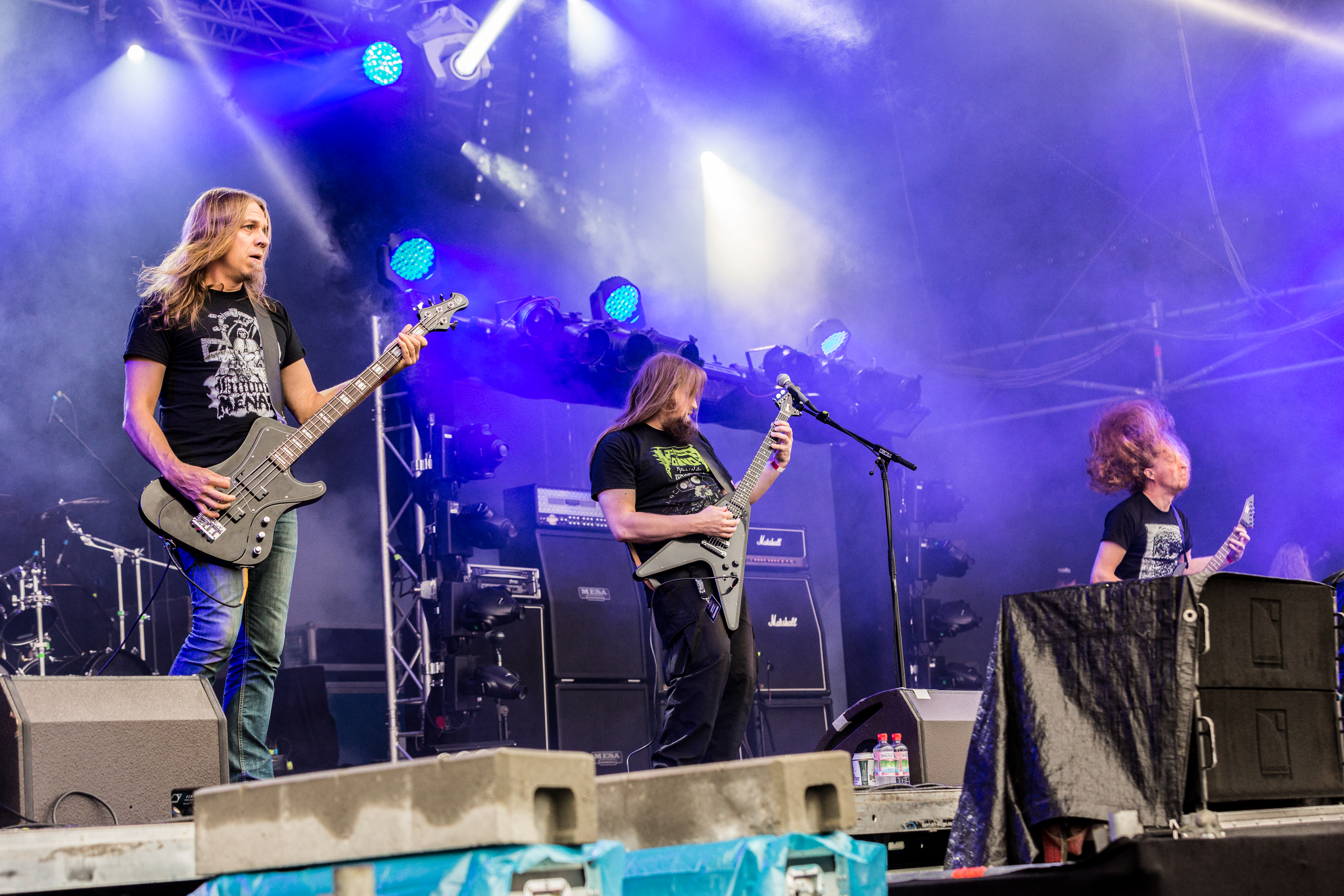 The Finnish technical death metalband Demilich at the Party.San Metal Open Air 2017 in Obermehler-Schlotheim/Germany.